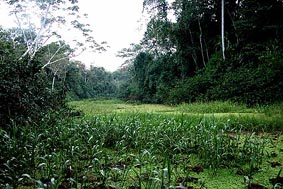 A Cocha (lake) in the Amazon. The process of sedimentation means that it will eventually become dry land. Soon trees grow and disappear completely.